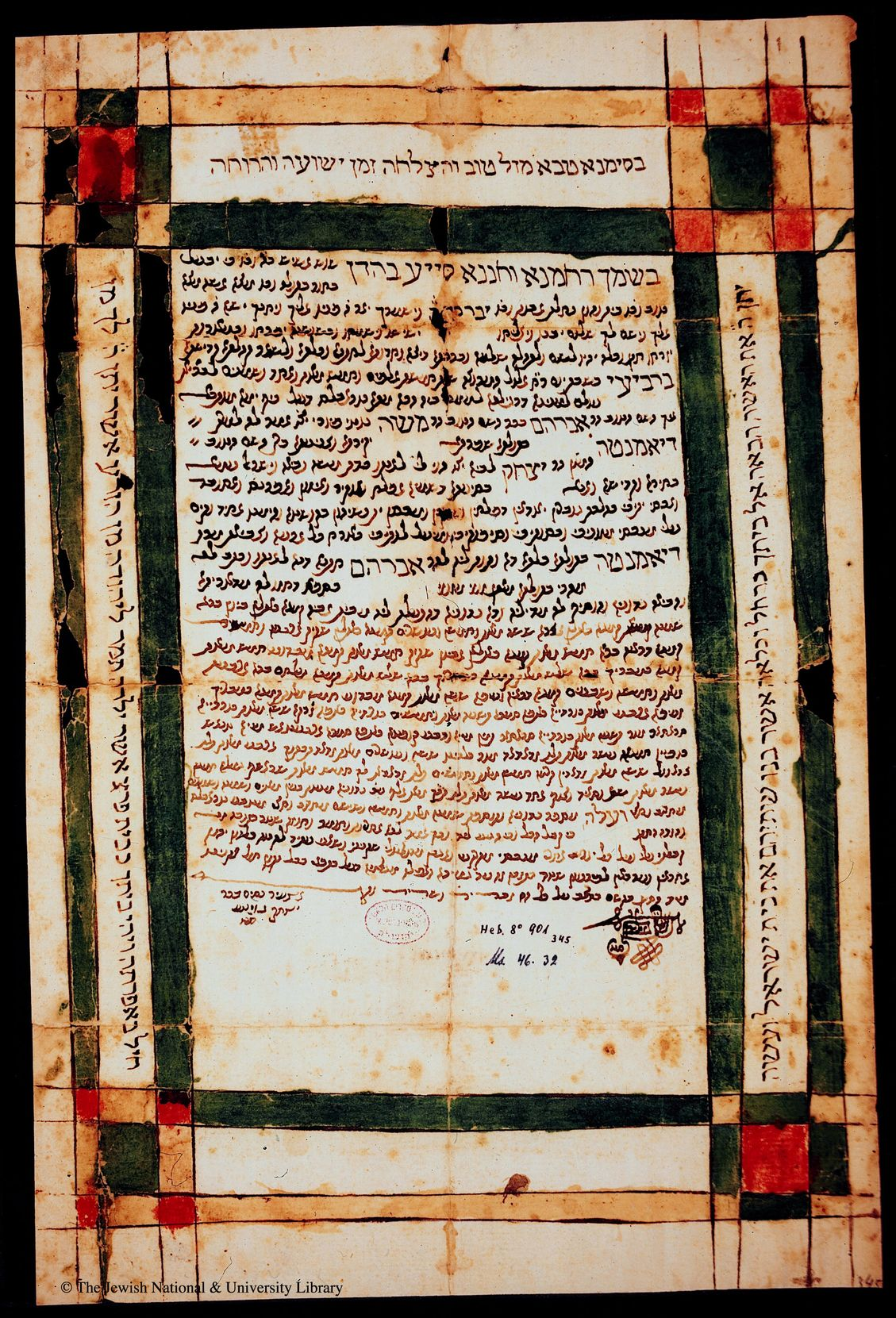 Ketubah from The Ketubot Collection of the National Library of Israel